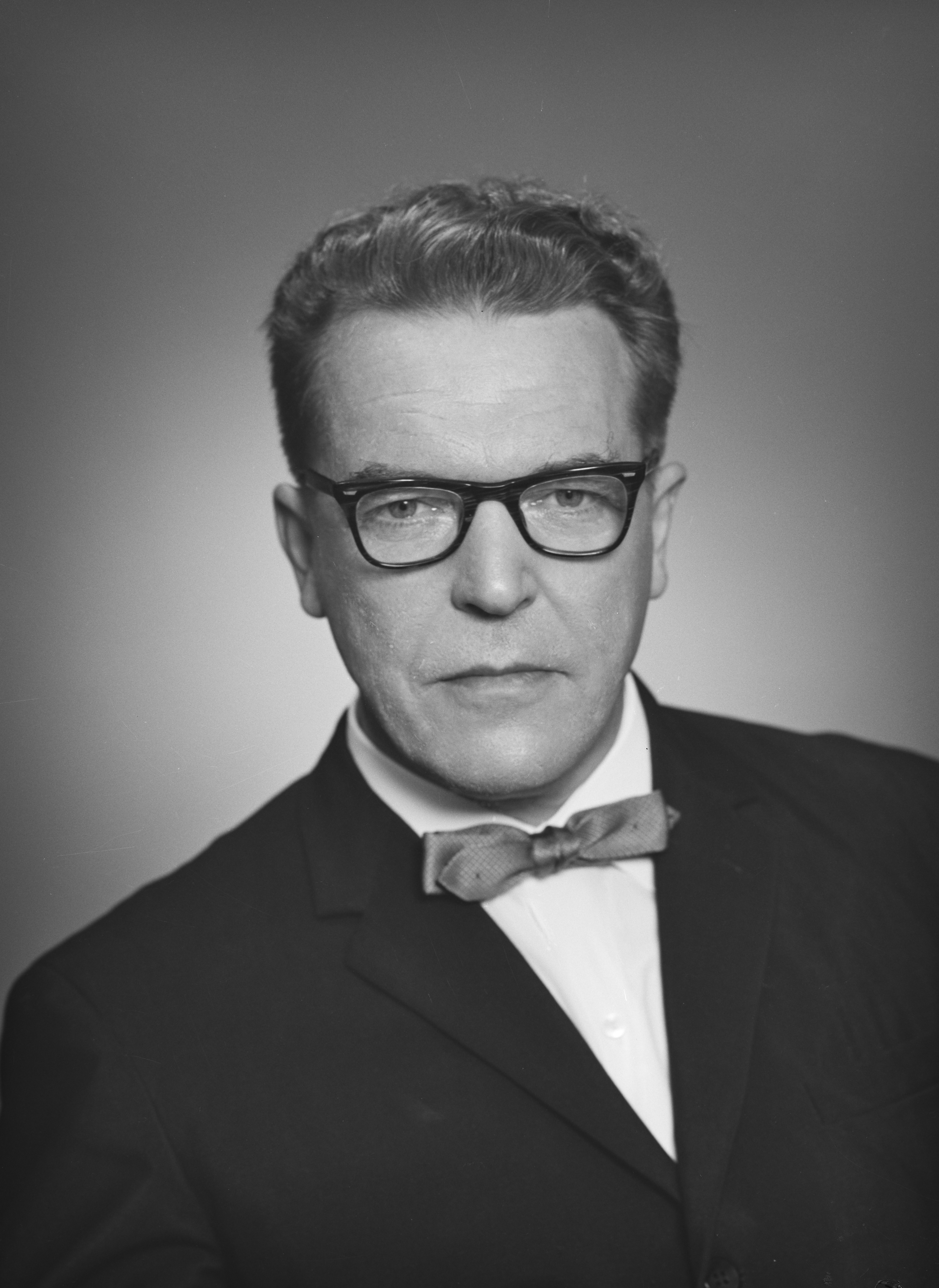 Photograph of the Finnish physicist Erkki Laurila (1913–1998).